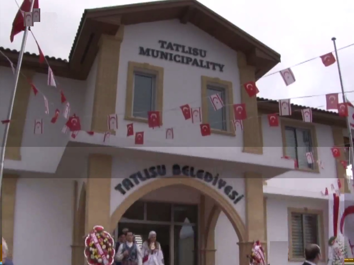 Tatlisu municipality building